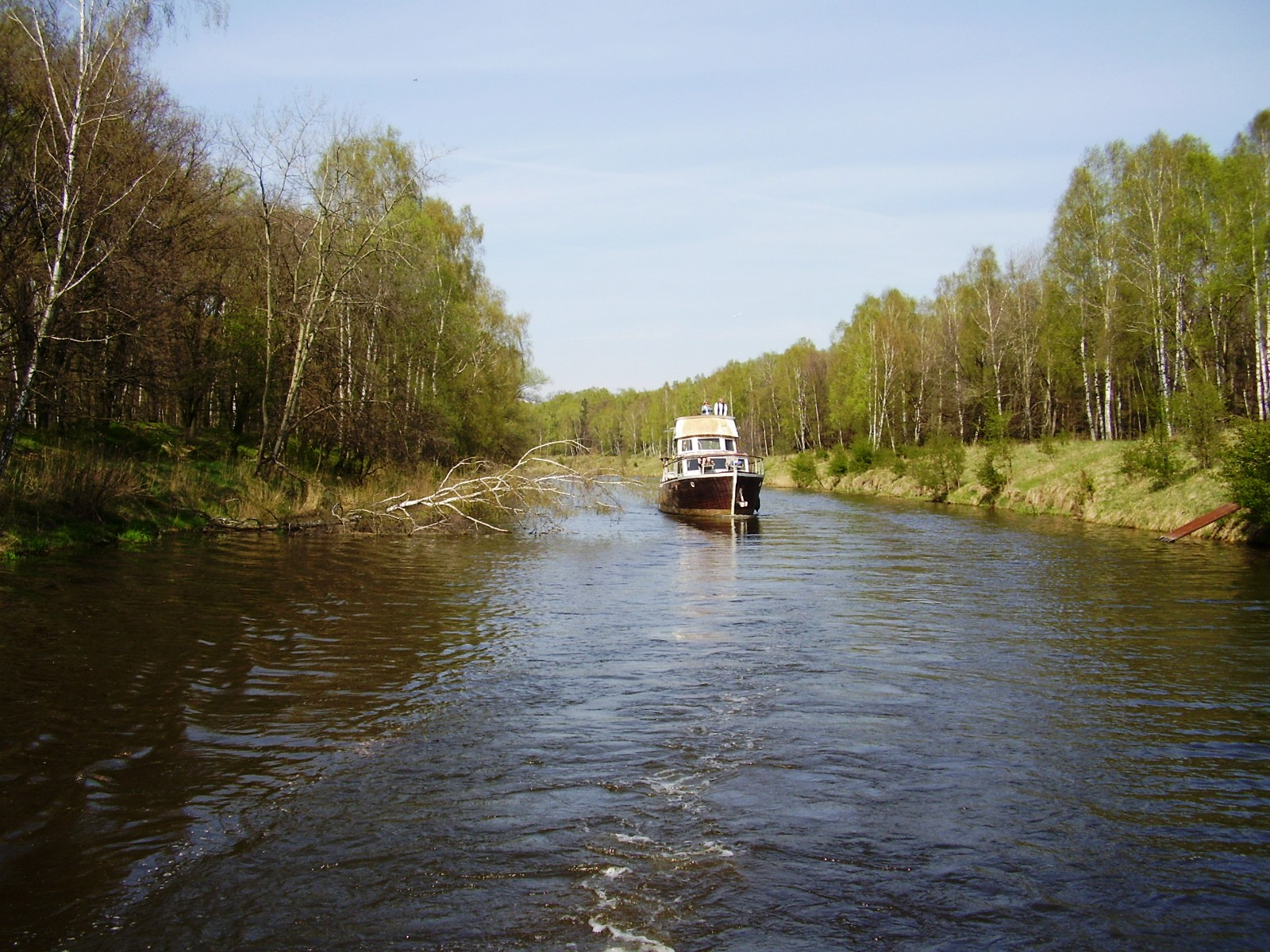 Finished part of the Danube-Oder Canal near town of Kędzierzyn-Koźle.